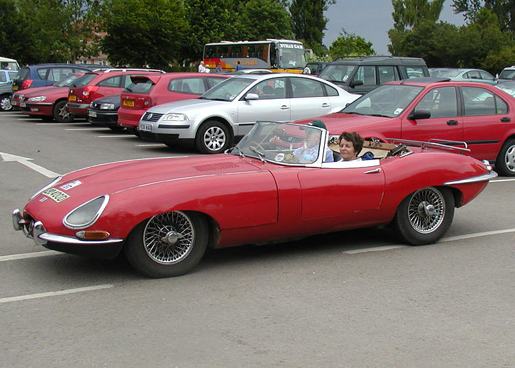 Jaguar E-Type, manufactured in 1966. At a Classics Rally, Slimbridge, Gloucestershire, England, in June 2003.